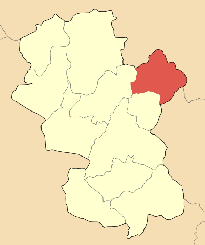 Locator map of Fourna municipality (Δήμος Φουρνά) at Evrytania prefecture, Central Greece.